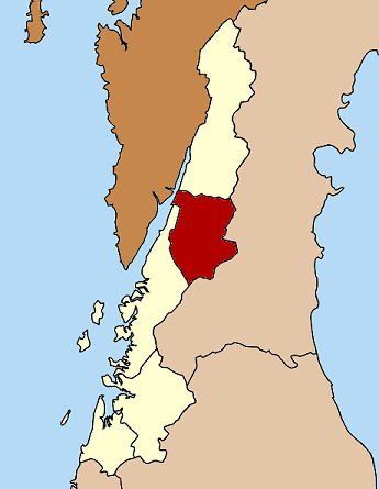 Map of Ranong province, Thailand, with the district La-un (อำเภอละอุ่น) highlighted.